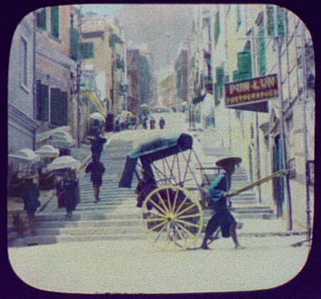 Title: Street scene; shop of "Pun Lun, Photographer" in foreground Physical description: 1 slide : lantern, hand colored ; 3.25 x 4 in. Notes: Forms part of: Jackson, William Henry, 1843-1942. World's Transportation Commission photograph collection (Library of Congress).; Gift; William P. Meeker; 1971.